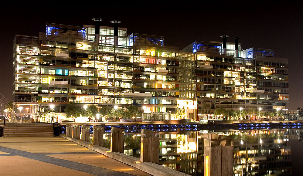 National Australia Bank, Docklands, Melbourne Office. Taken by Anthony Agius.